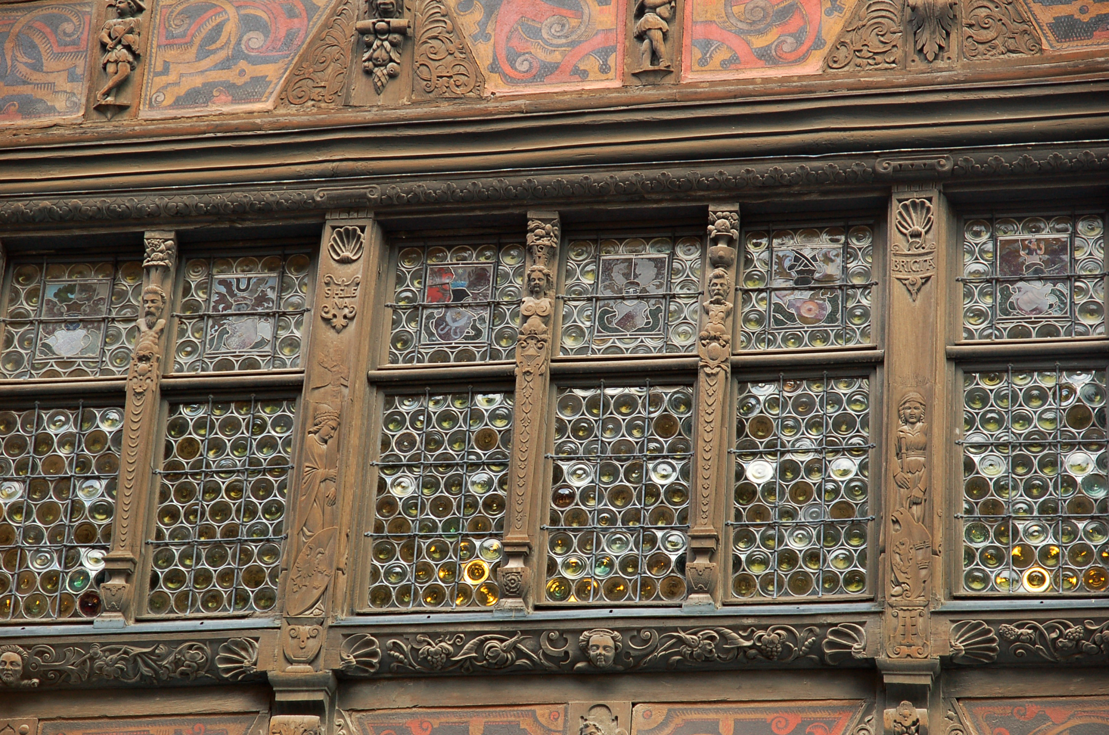 Windows and reliefs on Kammerzell House in Strasbourg, France